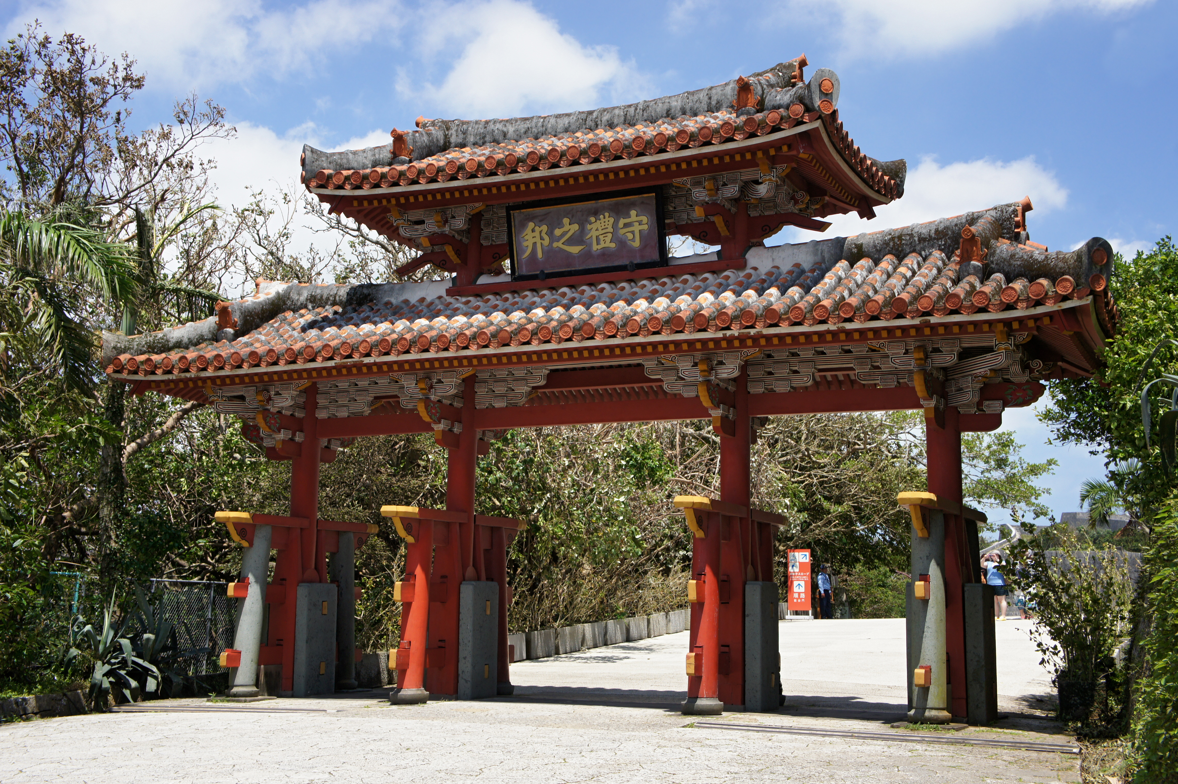 Shureimon of Shuri Castle in Naha, Okinawa prefecture, Japan. Shuri Castle was registered as part of the UNESCO World Heritage Site "Gusuku Sites and Related Properties of the Kingdom of Ryukyu".